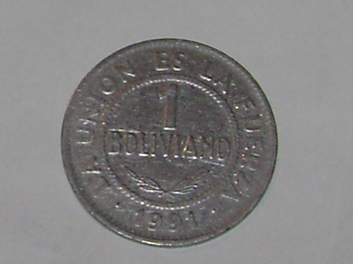 La union es la fuerza, 1-Boliviano-coin, Bolivia